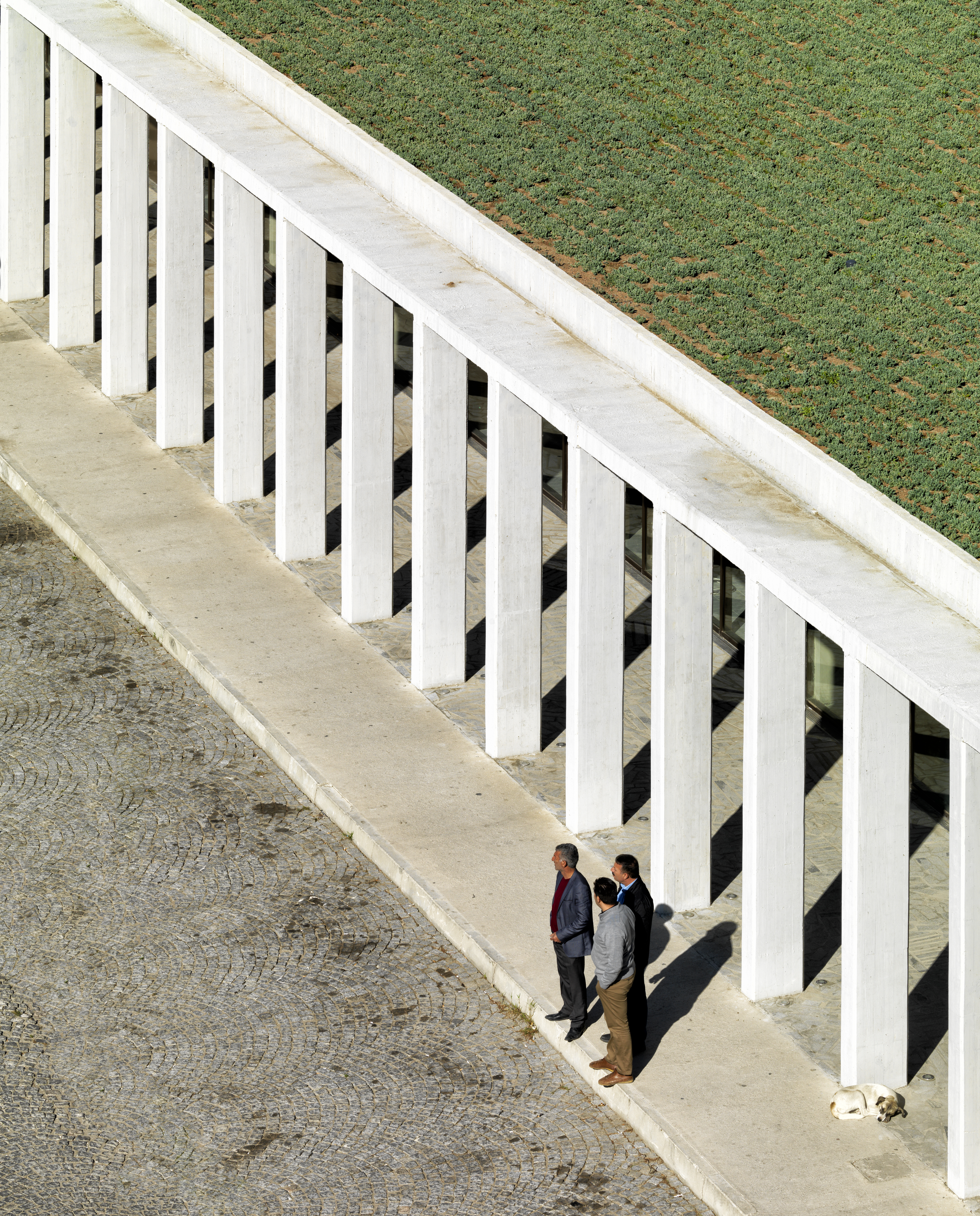 Today, two different images exist together in Bergama. One of them is the ancient city of Pergamon. The acropolis presents the physical appearance of a city culture built upon a rooted civilization. In contrast, the city of Bergama today, laying below Acropolis, displays a rather rural city texture. The urban texture of a typical small town started yielding itself to apartments. Is there any possibility to consider a relationship between the Acropolis and Bergama? The question waits for the description of a place that will host Bergama’s cultural life without avoiding the memory of the place. The commerce along the Cumhuriyet Avenue continues with the rambling stores that intrude the pedestrian walkways. To sustain the commercial life that exists here and at the same time not to displace the tradesman were the main reference points. In the design, the commercial units recede a step back to keep the alignment alongside the avenue and create a shaded arcade. This arcade creates an interior courtyard by surrounding the area from three sides allowing the stores to work towards both to the street and the courtyard. The three masses placed in the courtyard generate spaces of cultural activities like the library, cinemas and theater revealing rich spaces open for public use in the voids generated between each other. The park across the road is connected to the Cultural Center with a green bridge that descends first to the level of the open air cinema, cafe and lounge spaces and then into the courtyard. The recreational functions in the courtyard act as lounge spaces for the cinema and multi-purpose hall, enriching the daily life of Bergama. With all of these qualities, Bergama Cultural center, breaks the image of the ‘cultural center’ that fails to form a relationship to the citizens, and makes itself a citizen of Bergama.